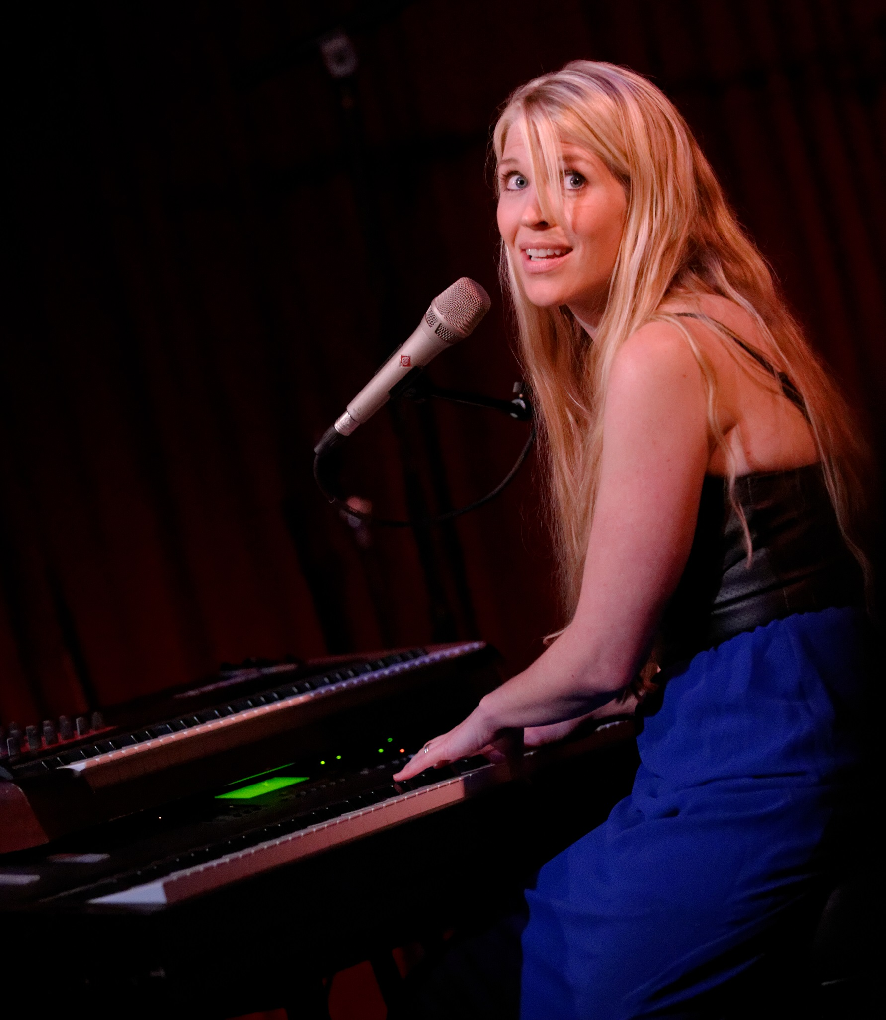 Charlotte Martin performing live at the Hotel Cafe in Los Angeles California on February 22, 2014.